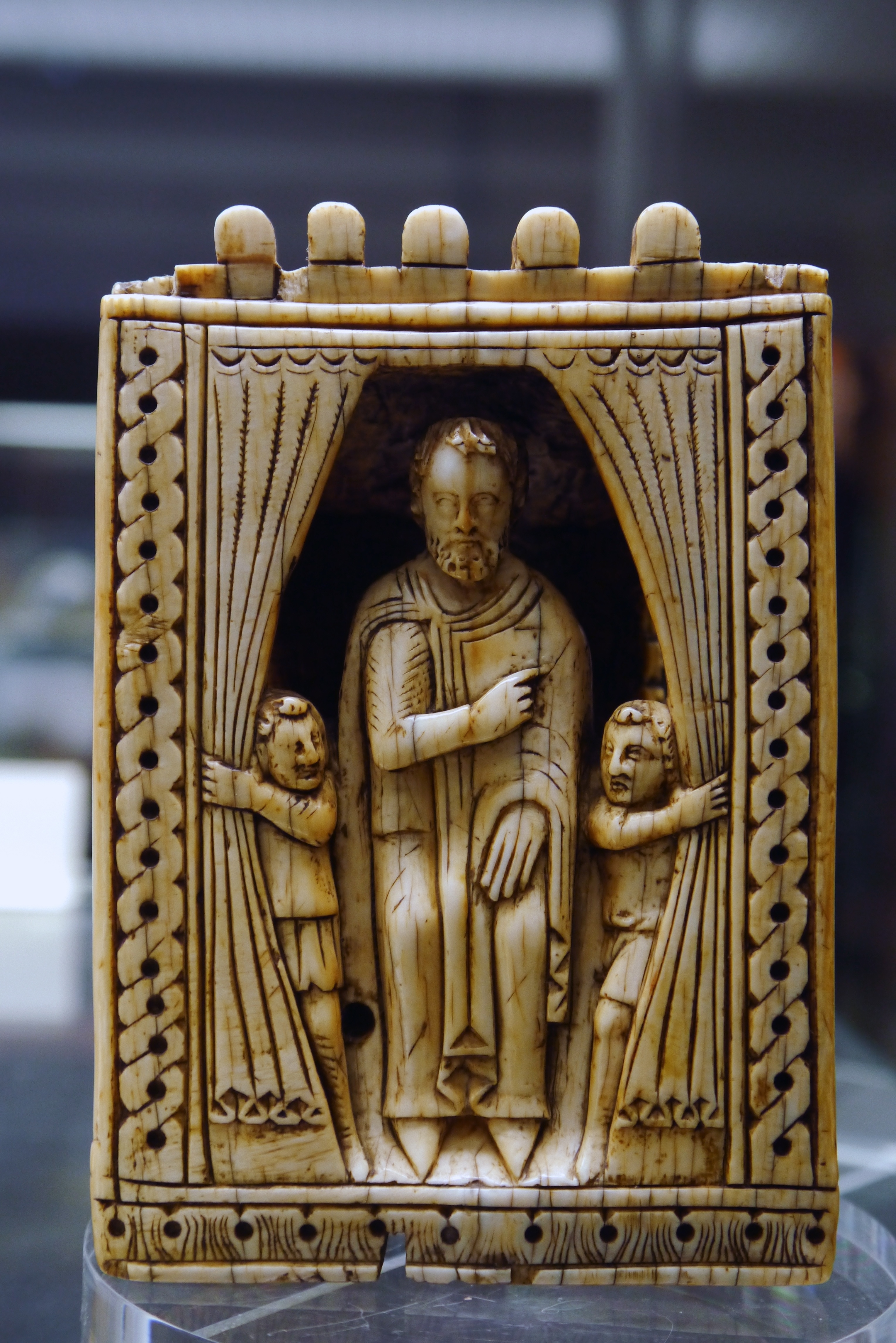 Cabinet des médailles, Paris, France. Chess vizier (queen), Southern Italy, start of 12th century, ivory.